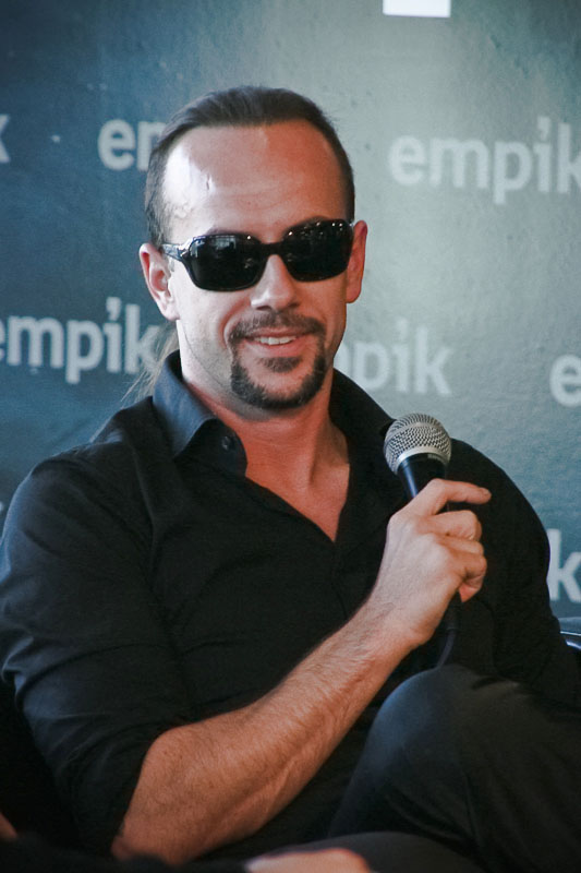 Adam Darski at Empik store, August 30, 2009